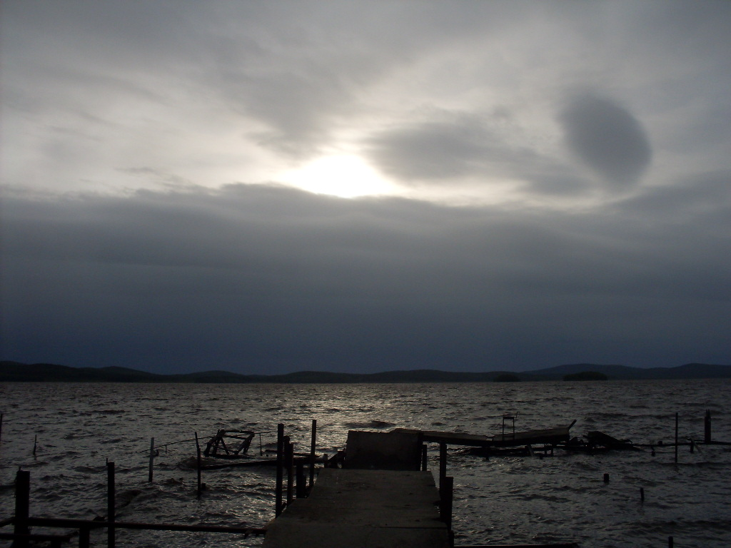 Iset Lake view